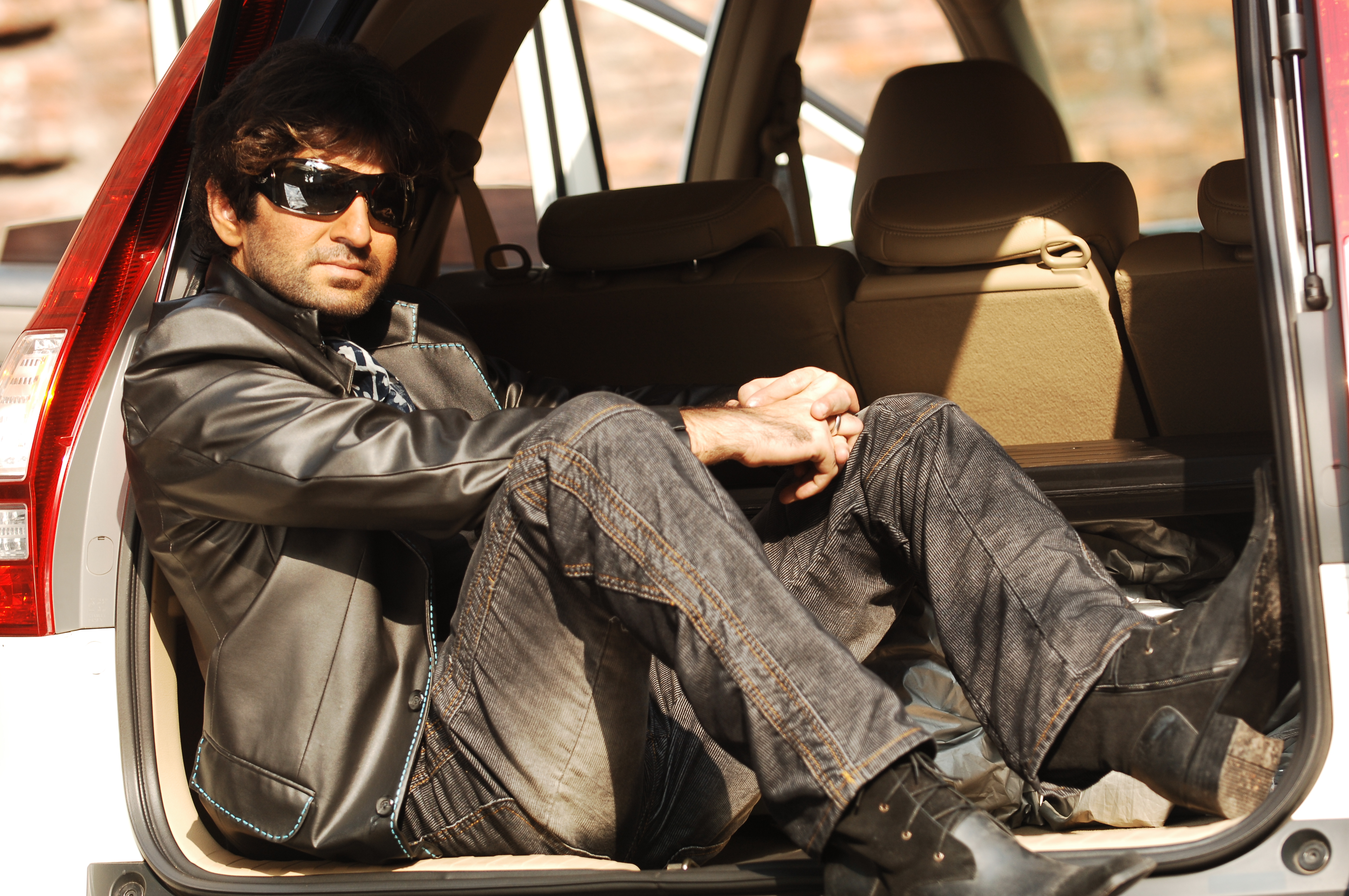 Photo of Bengali actor Jeet